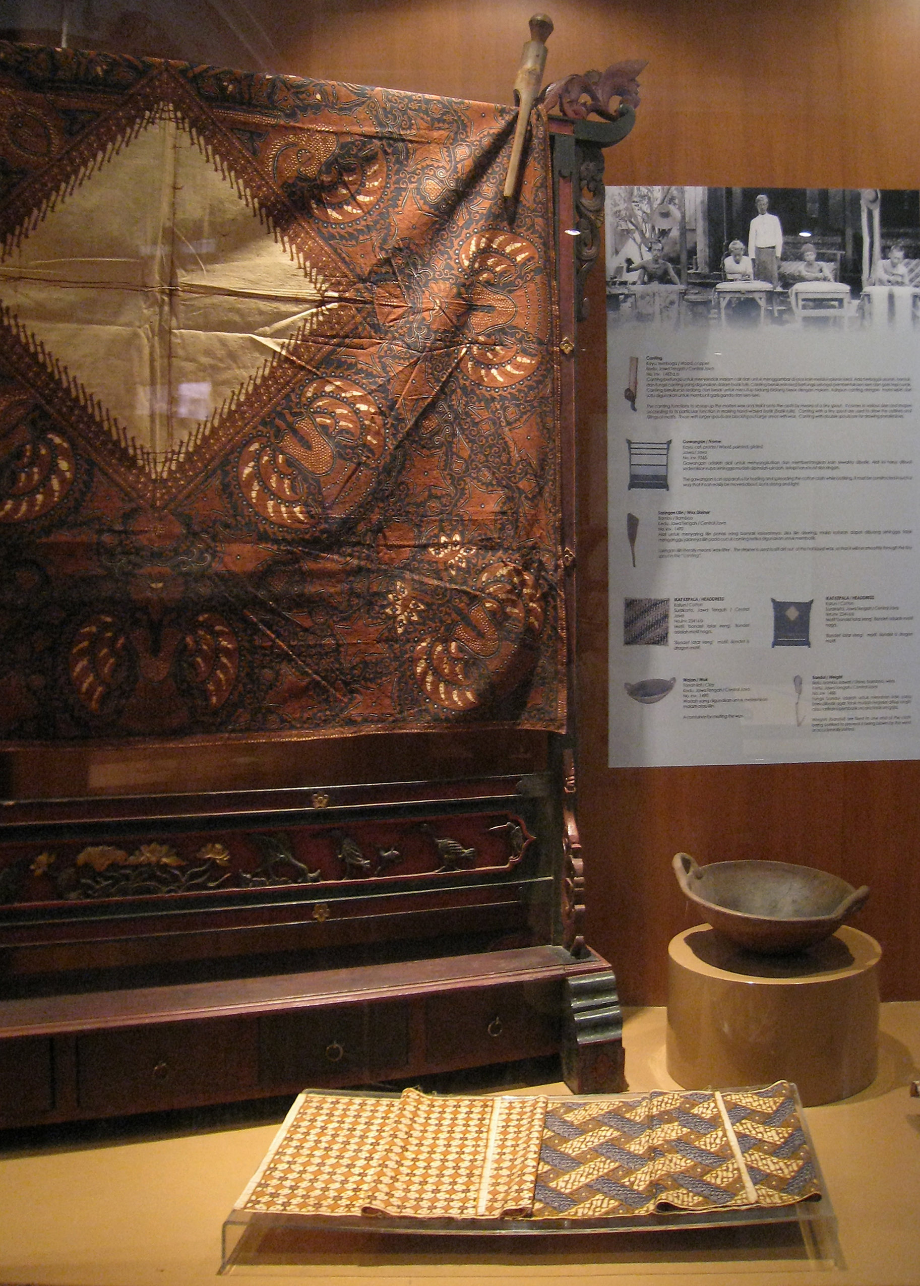 Batik Display at Indonesian National Museum, Jakarta. Batik is traditional Indonesian textile artform indigenous to island of Java.